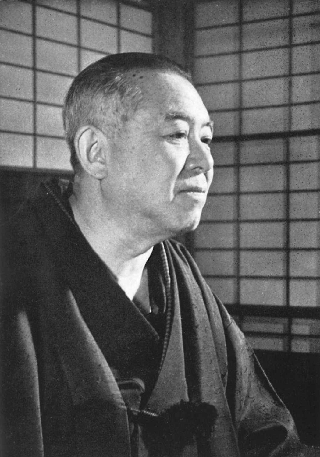 Junichiro Tanizaki